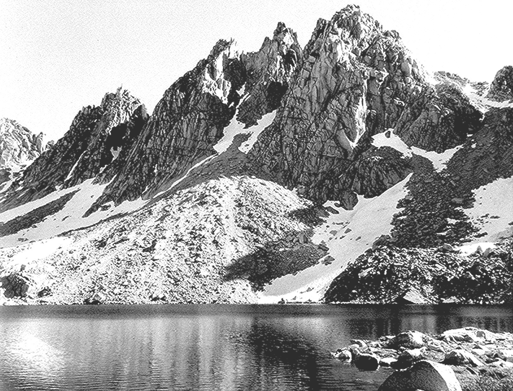 79-AAH-7 "Kearsarge Pinnacles." Kings Canyon circa 1930s